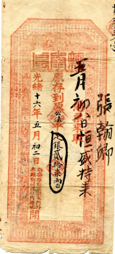 A remittance note issued by a Piaohao ("Shanxi bank") during the reign of the Guangxu Emperor of the Manchu Qing Dynasty.